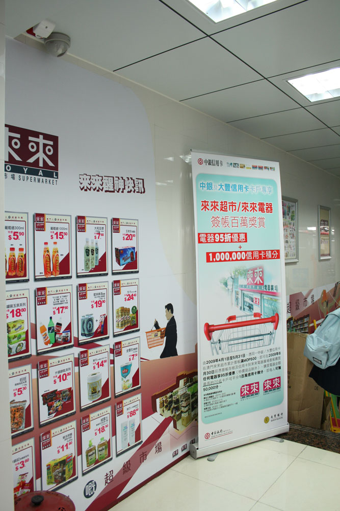 A inside view of a supermarket.